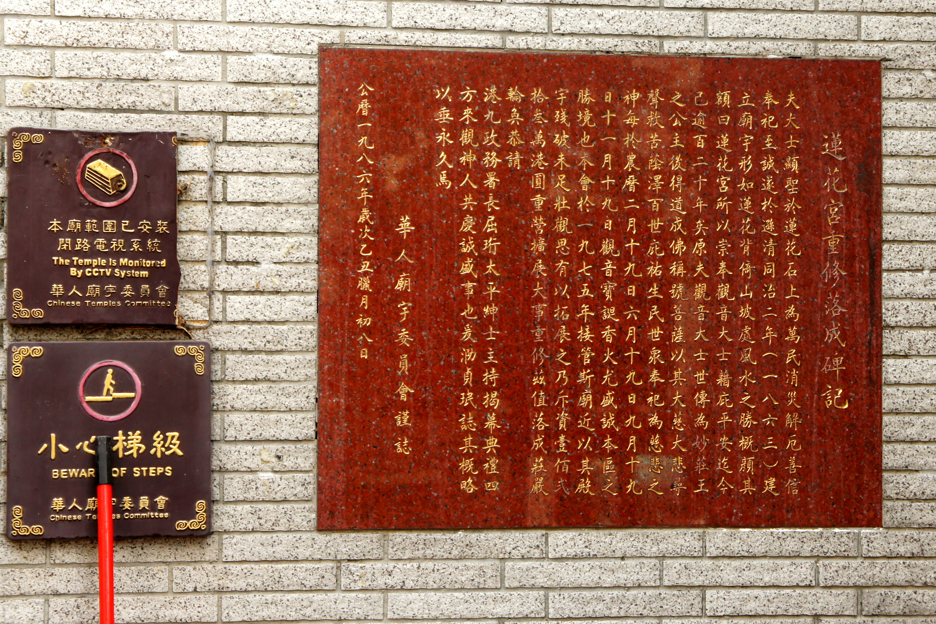 The inscription tablet describing the renovation of the Lin Fa Temple, Tai Hang, Hong Kong.